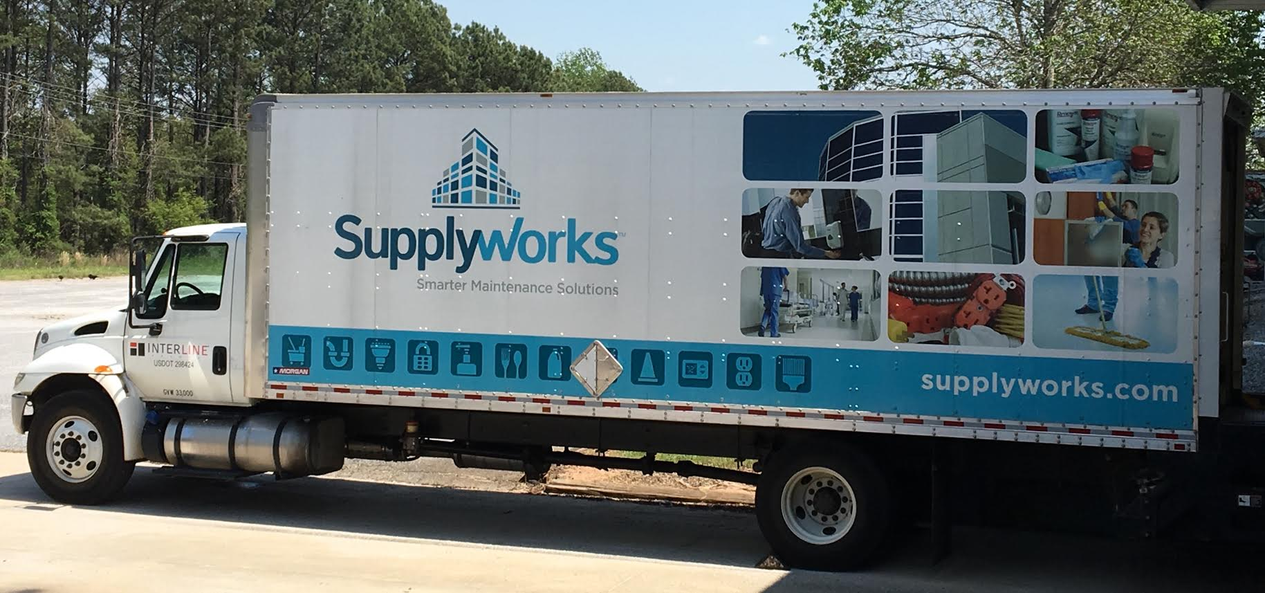 Supplyworks delivery truck.